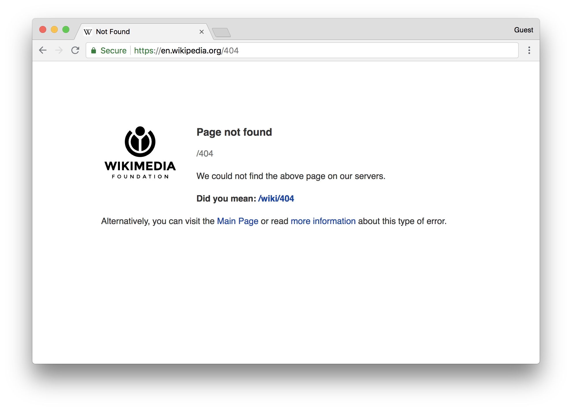 Page shown when requested page doesn't exist on Wikipedia